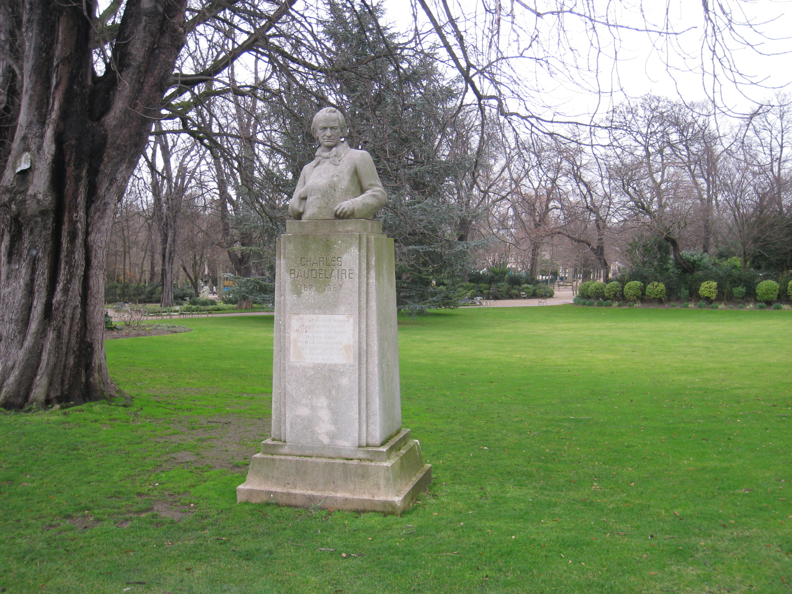 Jardin du Luxembourg, Paris, France - bust of poet Charles Baudelaire by Pierre Félix Masseau (1869-1937), also known as Fix-Masseau. Copyright restrictions (if any) have long since expired as its sculptor died more than 70 years ago.